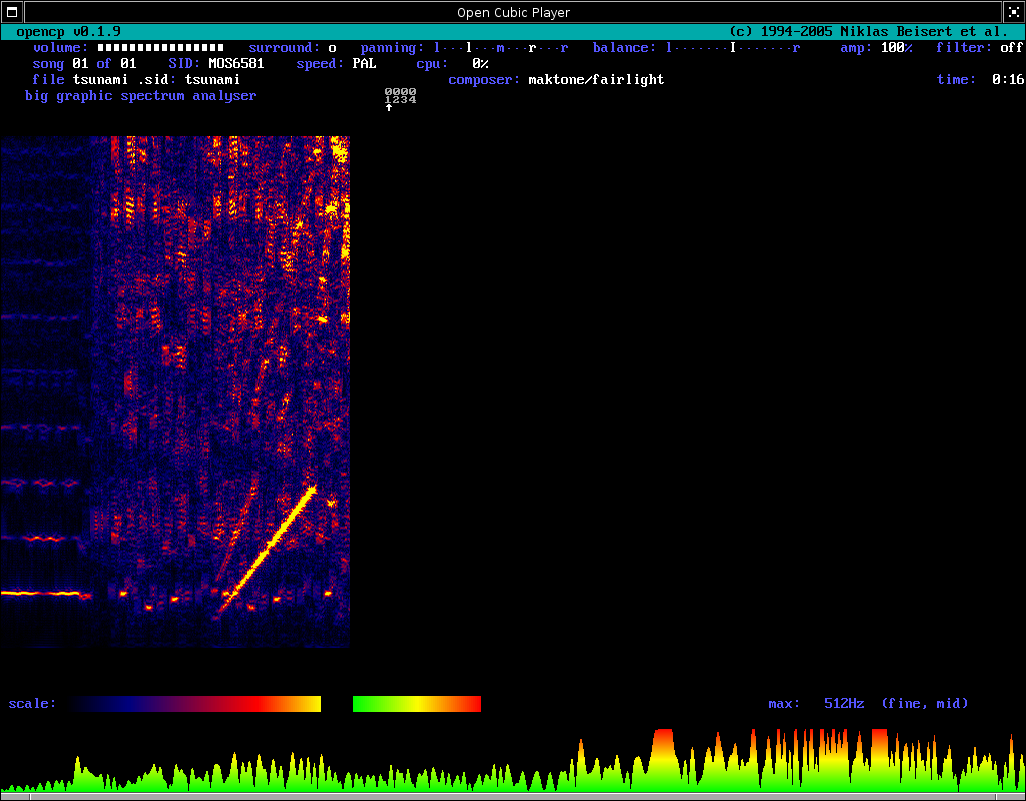 Screenshot of Open Cubic Player